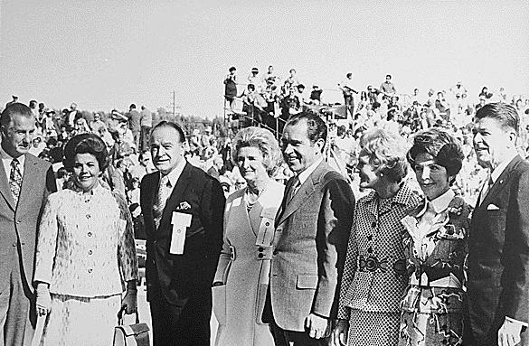 From left to right: Spiro and Judy Agnew, Bob and Dolores Hope, Richard and Pat Nixon, Nancy and Ronald Reagan during a campaign stop for the Nixon-Agnew ticket in California, 1971